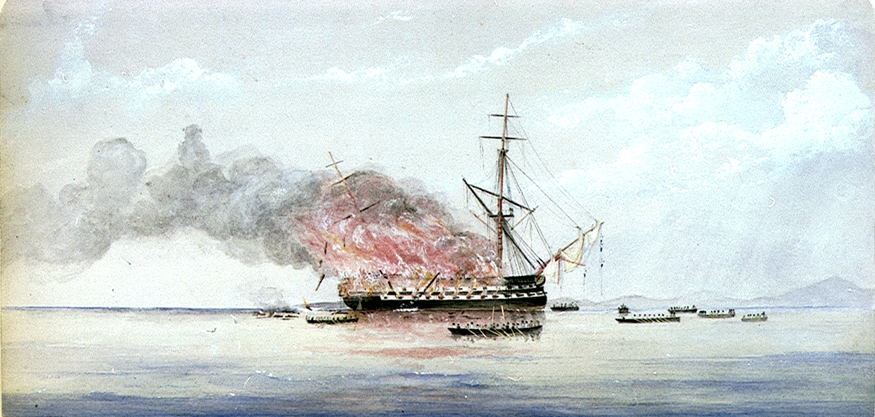 Image title: Bombay, Watercolour, Mount: 201 mm x 403 mm